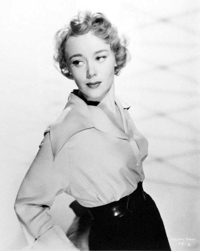 Depicted person: Glynis Johns – Welsh stage and film actress, dancer, pianist and singer